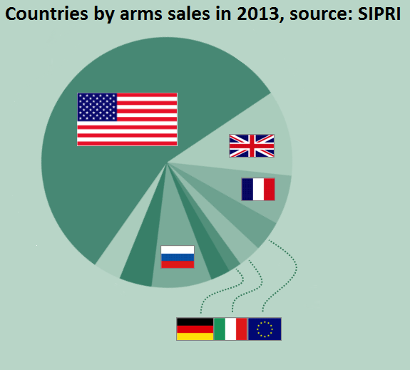 sipri data 2013